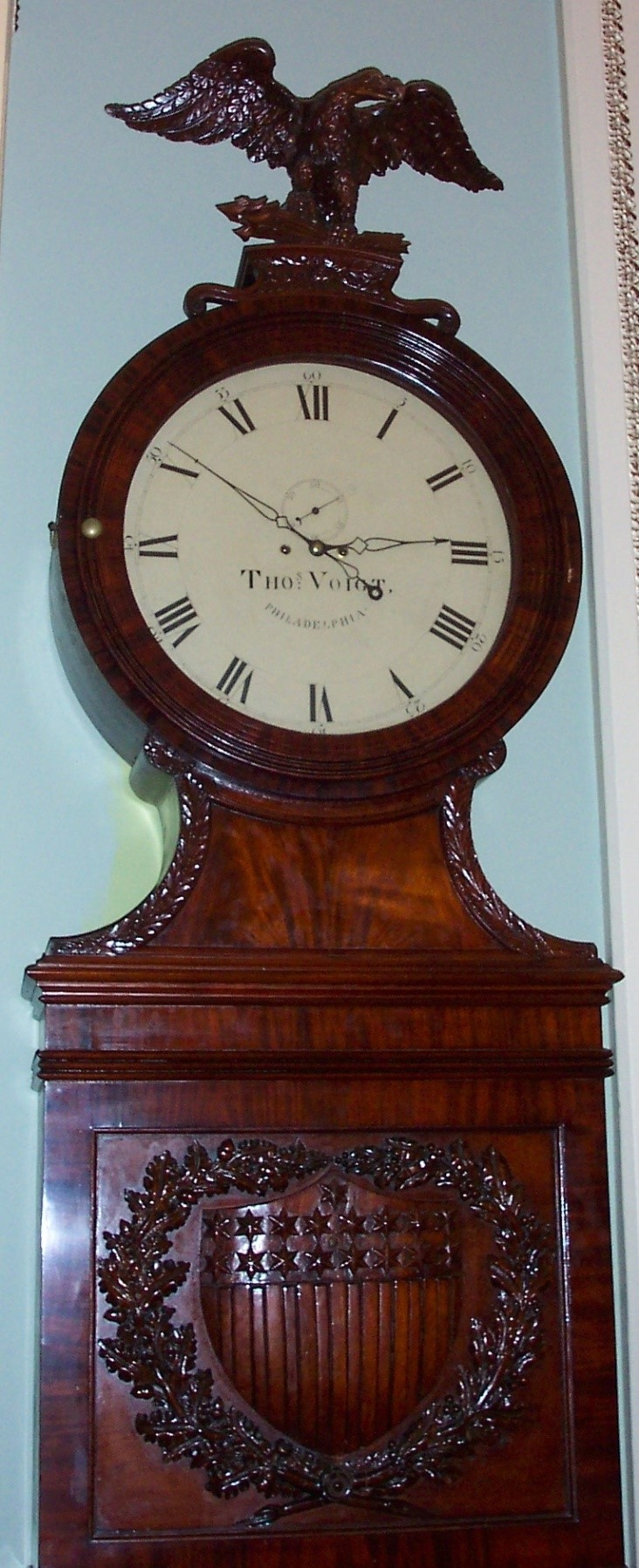 The Ohio Clock’s face labeled by its creator “Thos Voigt Philadelphia” (Photographed by this article’s writers in 2004 with permission of Mr. Richard Allan Baker, Historian of the U. S. Senate)